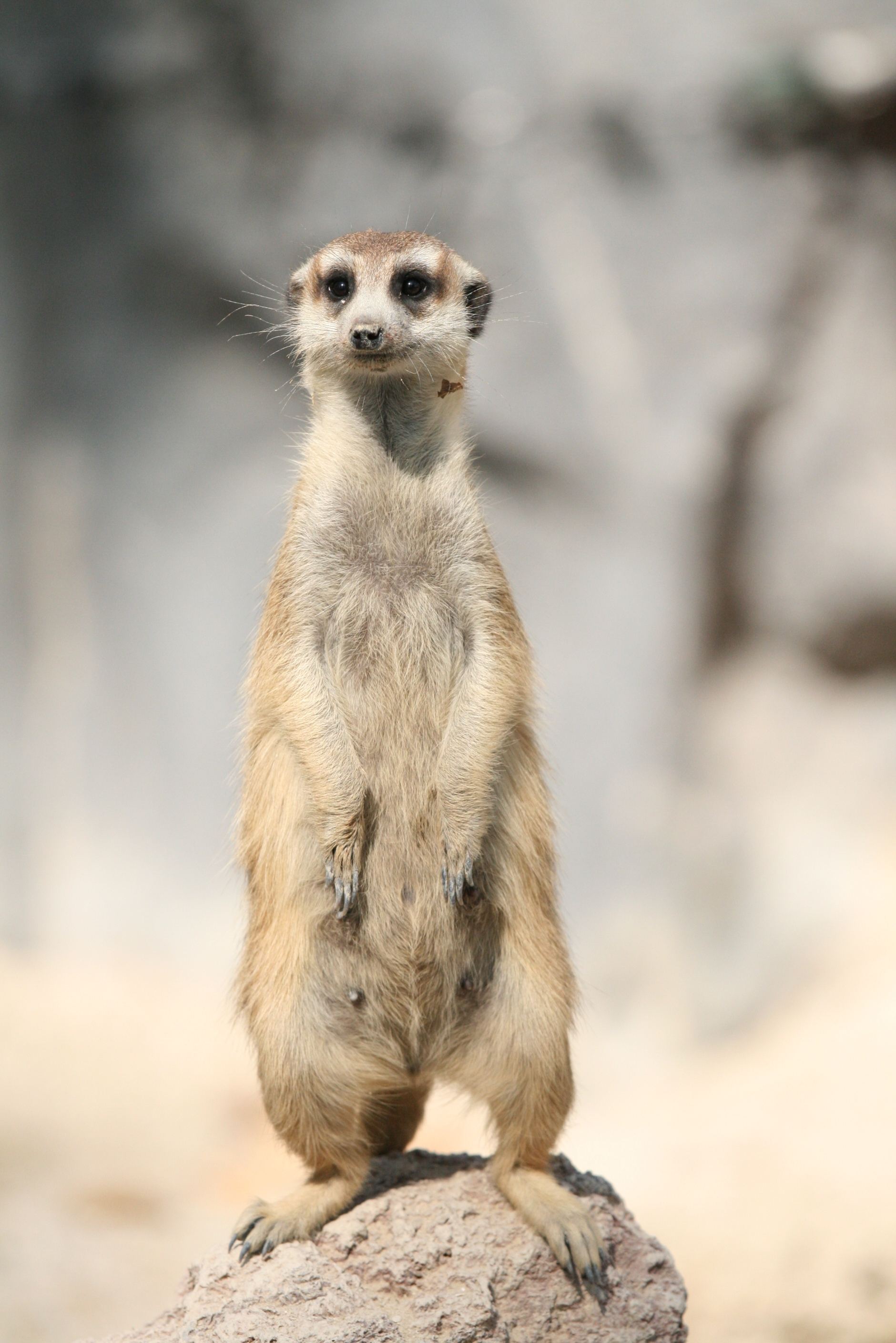 Meerkat, (Suricata suricatta), Parc Paradisio, Hainaut, Belgium.